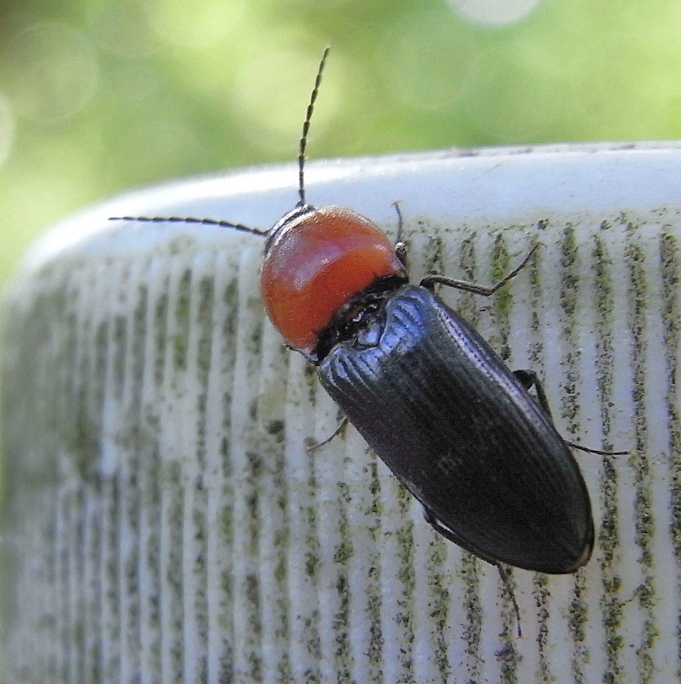 Cardiophorus gramineus from Hungary, near Nagykallo at 2010-06-07 Ricoh R8